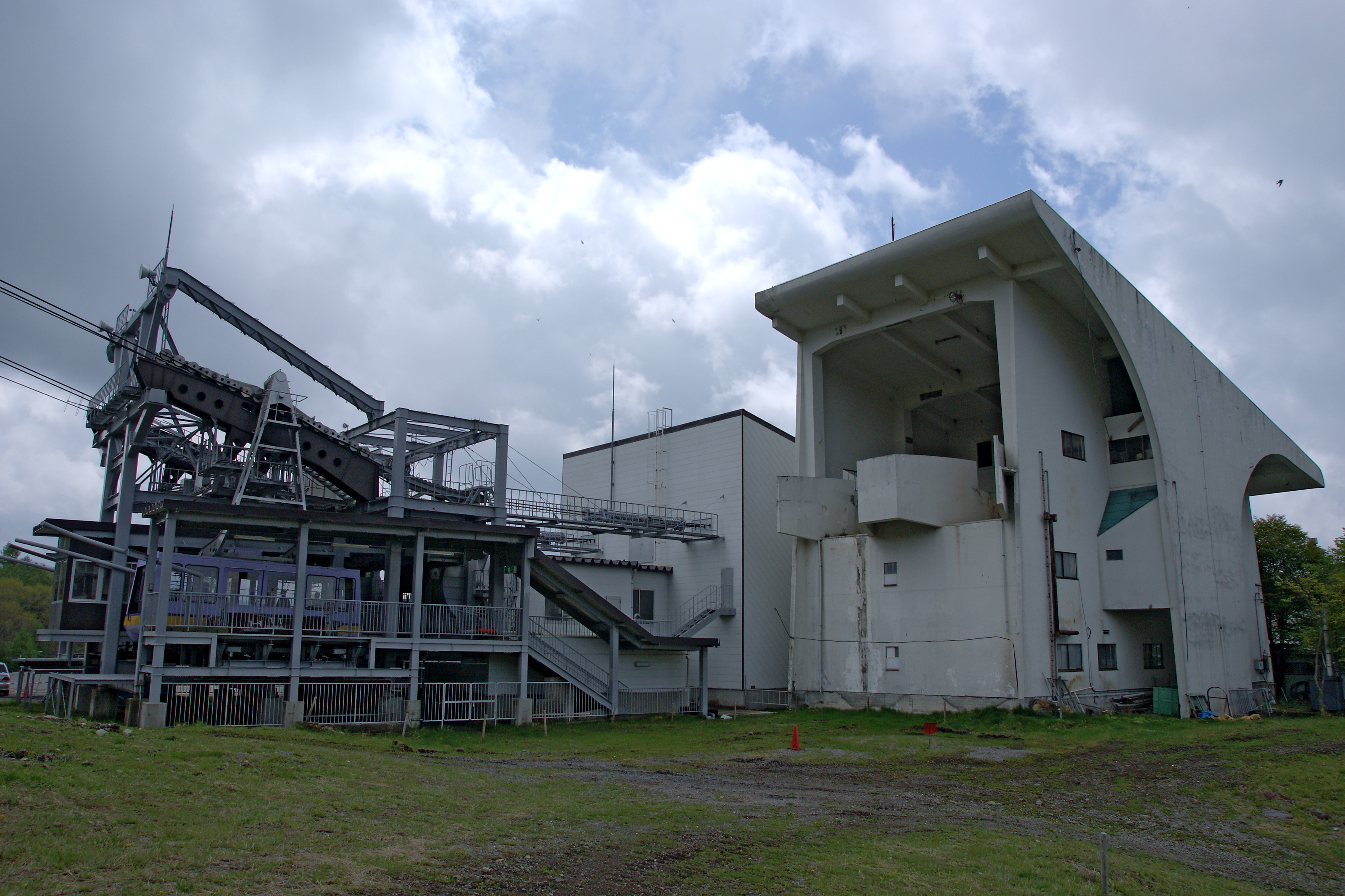 Pilatus Tateshina Rope Way in Chino, Nagano prefecture, Japan